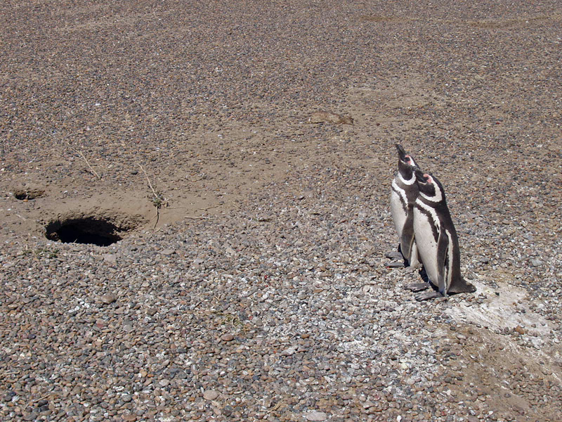 Penguin couple garding the nest's entrance at the Punta Tombo reservoir, Chubut, Argentina.